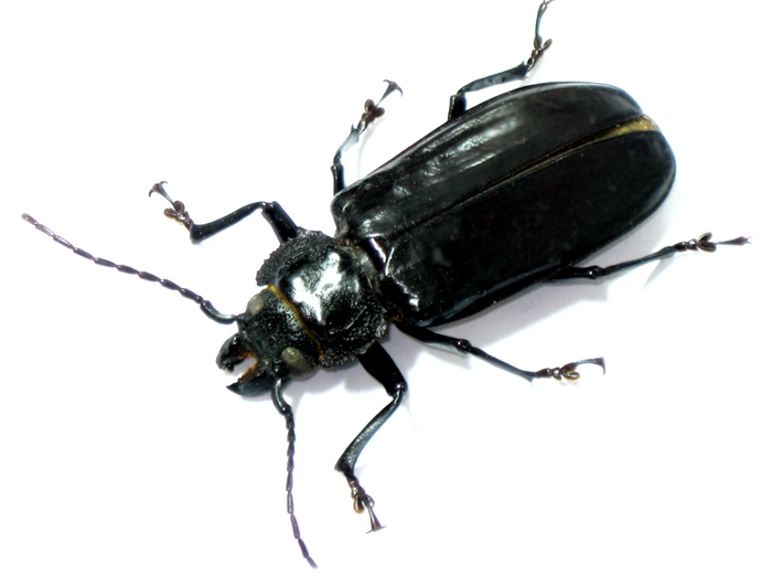 Cerambycidae beetle found in Paranapiacaba, Brazil. Possibly Mallodon dasystomus.